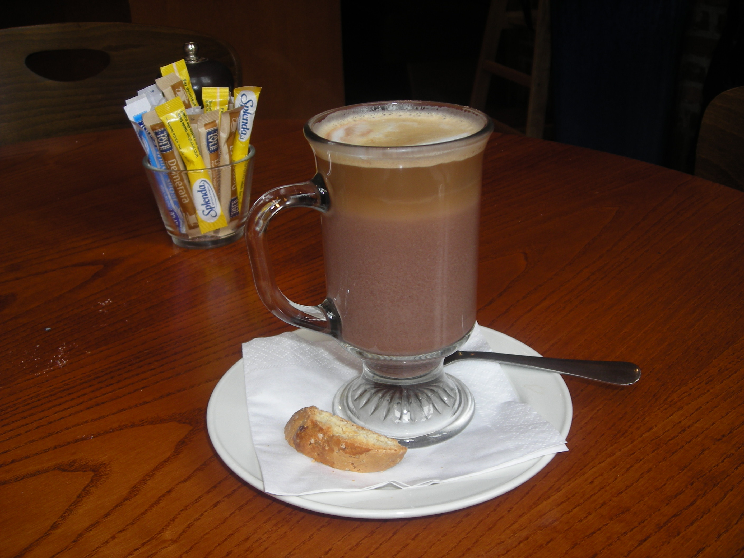 A Mocha coffee